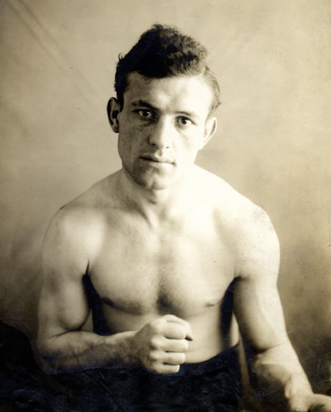 Packey MacFarland, American lightweight and welterweight boxer